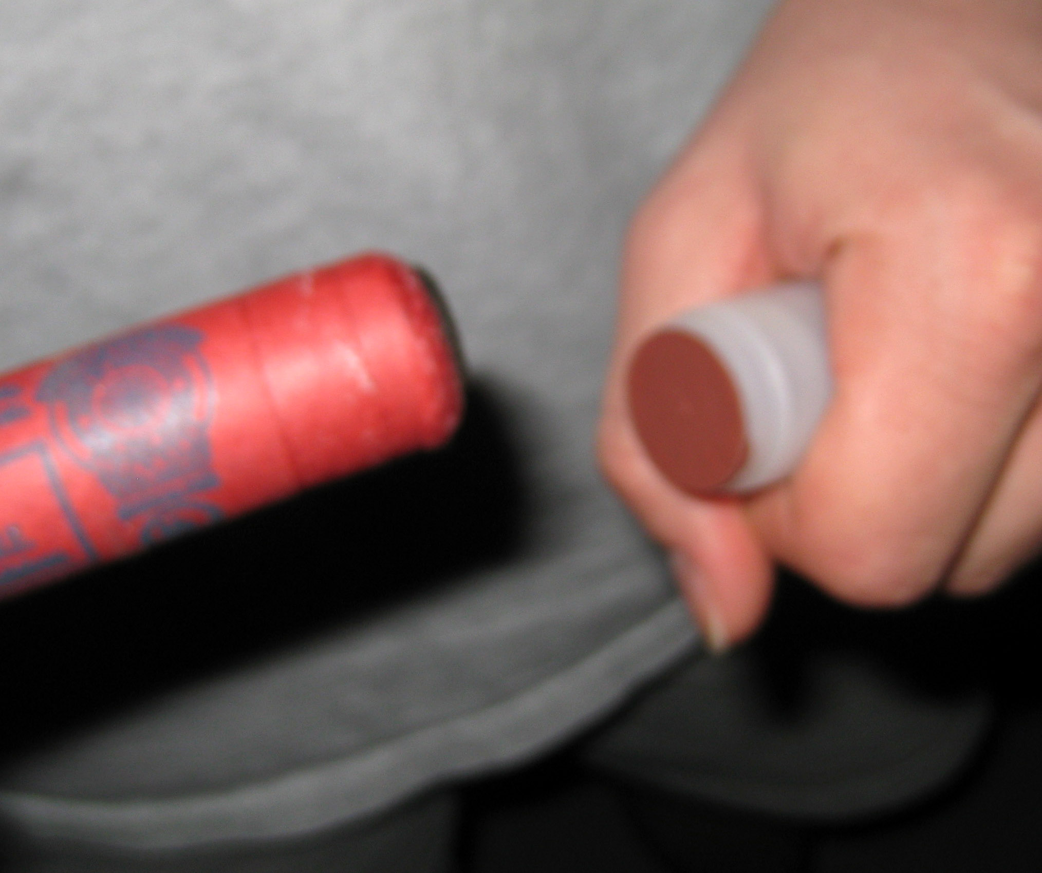 A road flare showing the striker and cap. Originally taken for